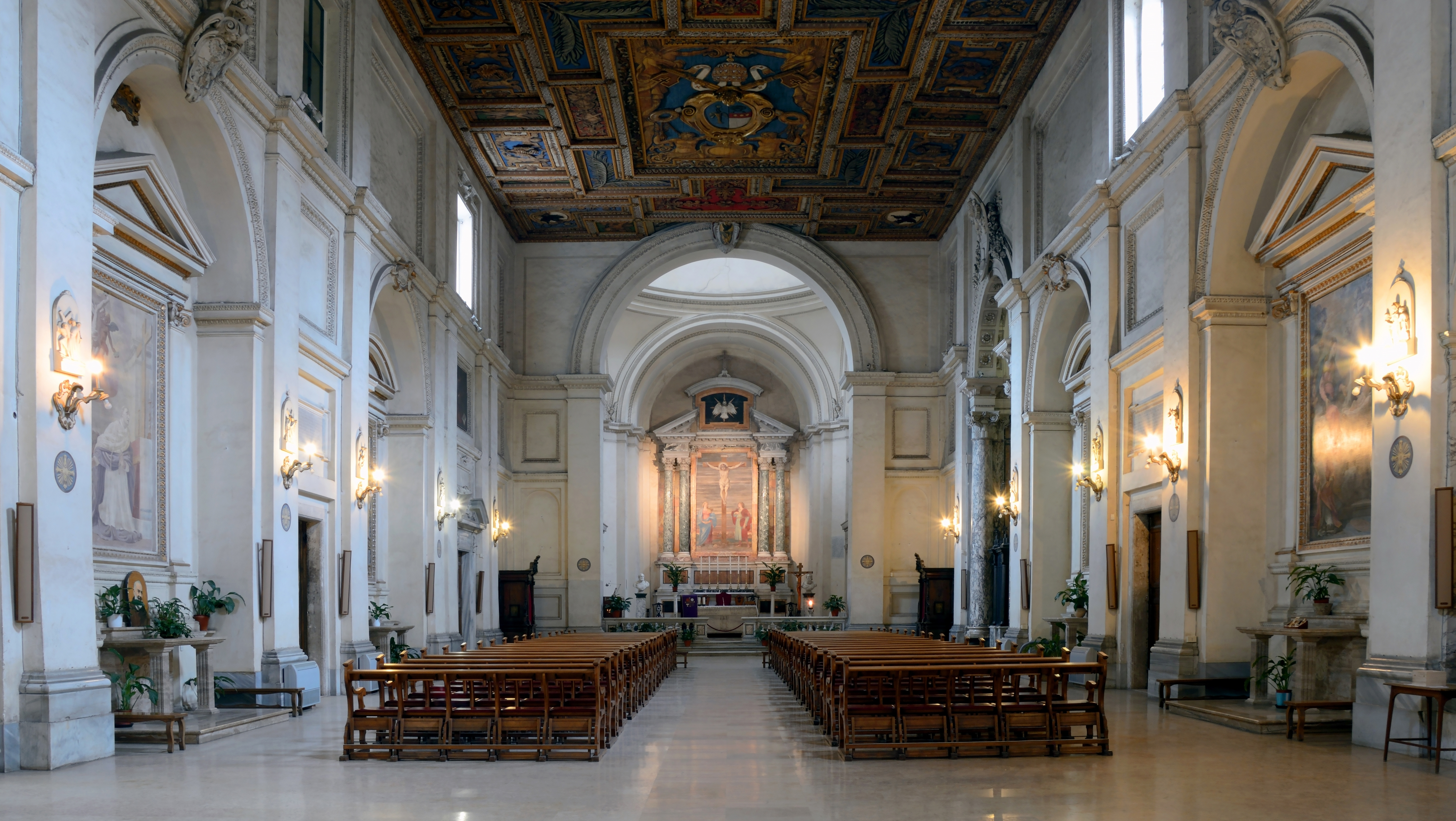 Interior of Saint Sebastian outside the walls (Rome, Italy).